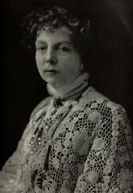 Portrait of Cécile Chaminade